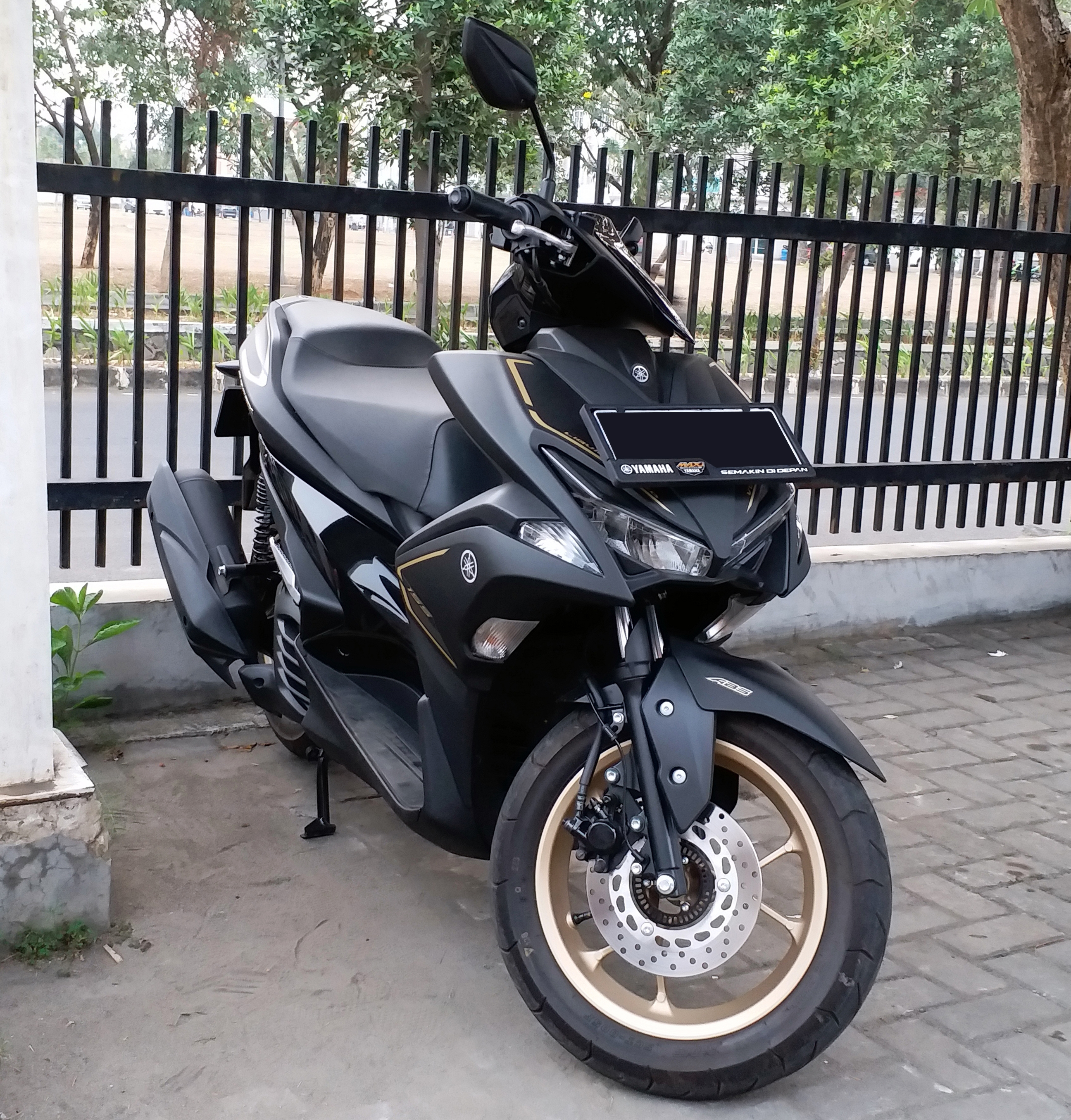 2019 Yamaha Aerox 155 VVA S-Version